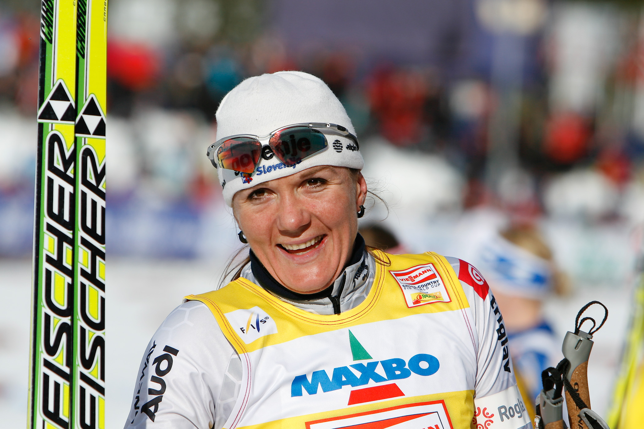 Petra Majdic after taking 1st place in womens 30km in Trondheim Norway 14 March 2009.